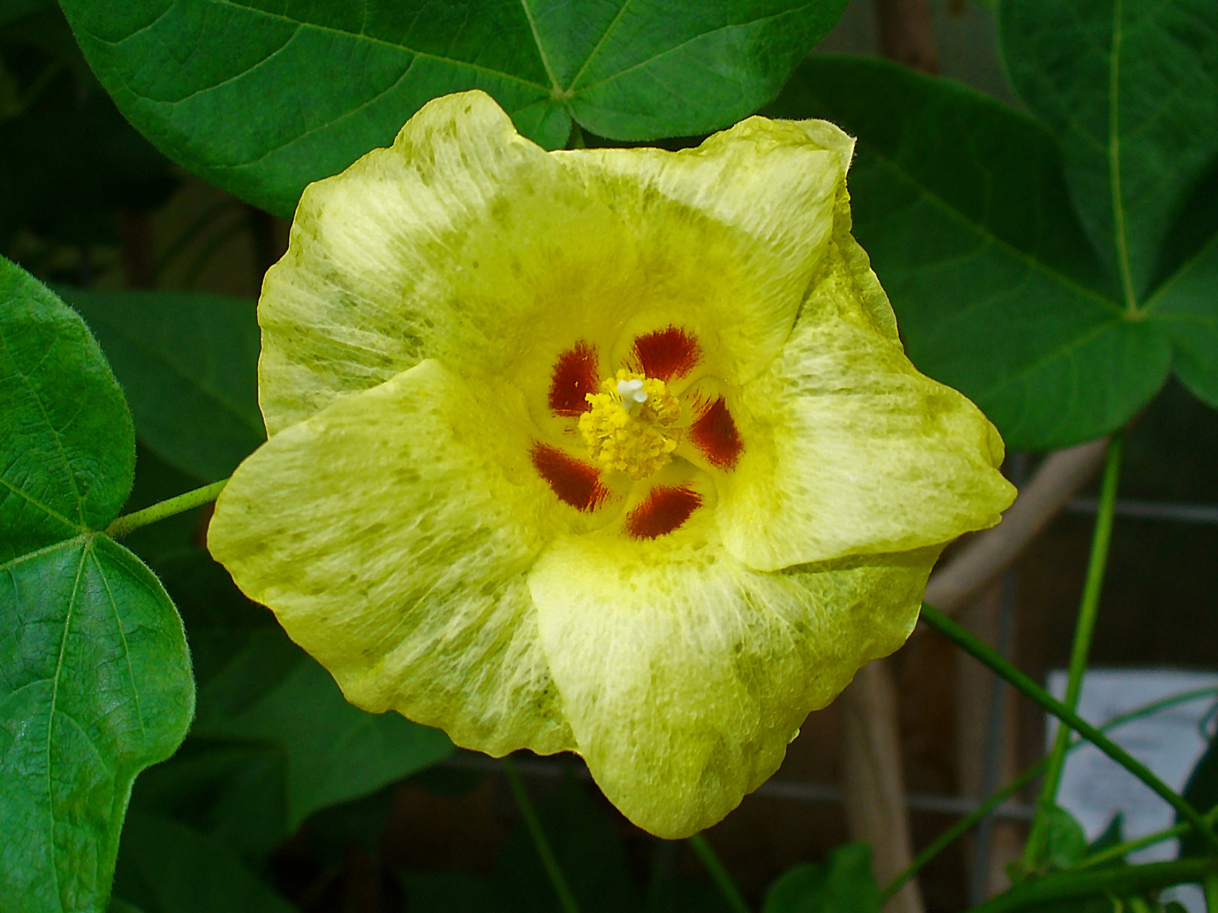 Gossypium herbaceum, Malvaceae, Levant Cotton, flower; Botanical Garden KIT, Karlsruhe, Germany. The fresh, inner rootbark is used in homeopathy as remedy: Gossypium herbaceum (Goss.)